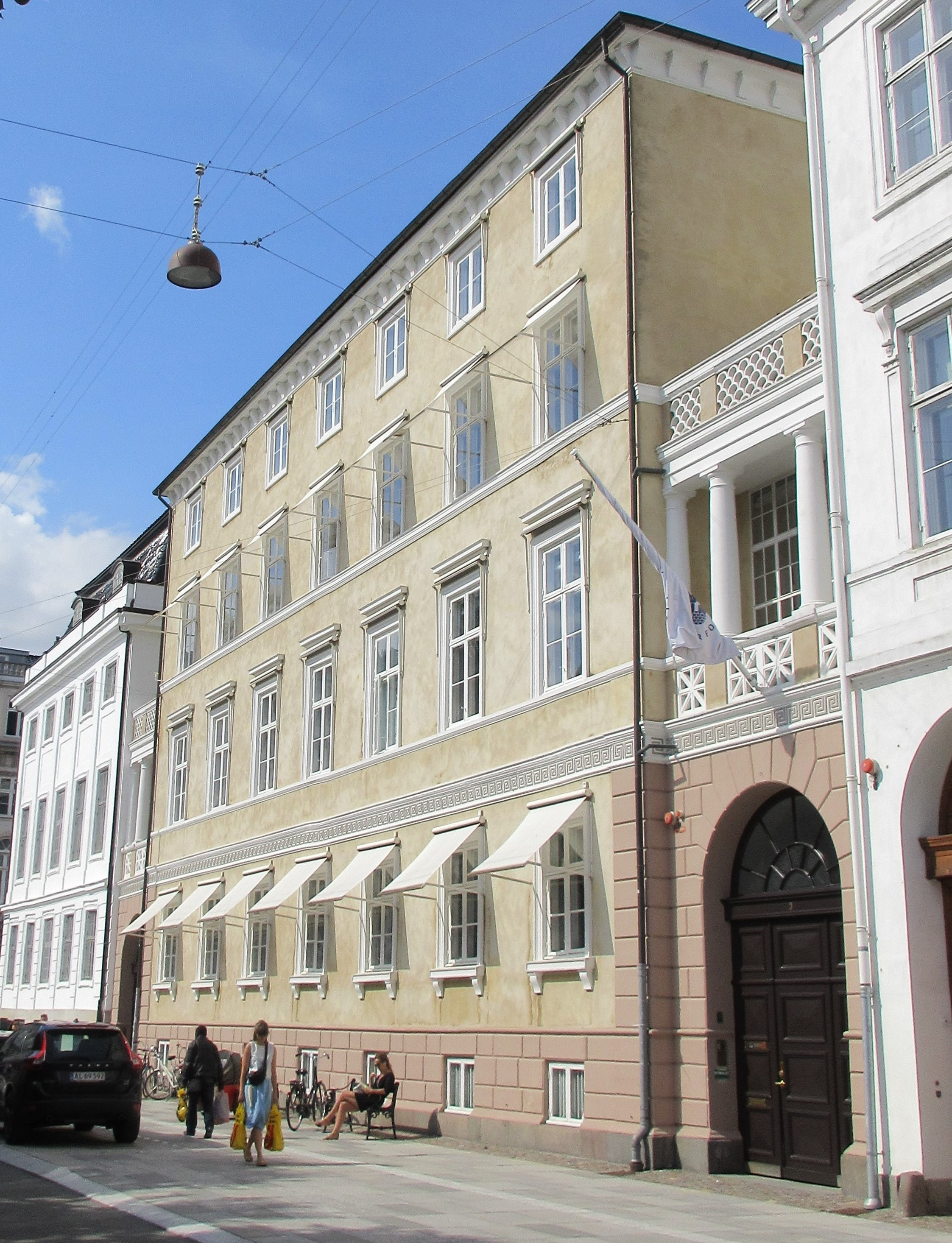 Sankt Annæ Plads 1-3